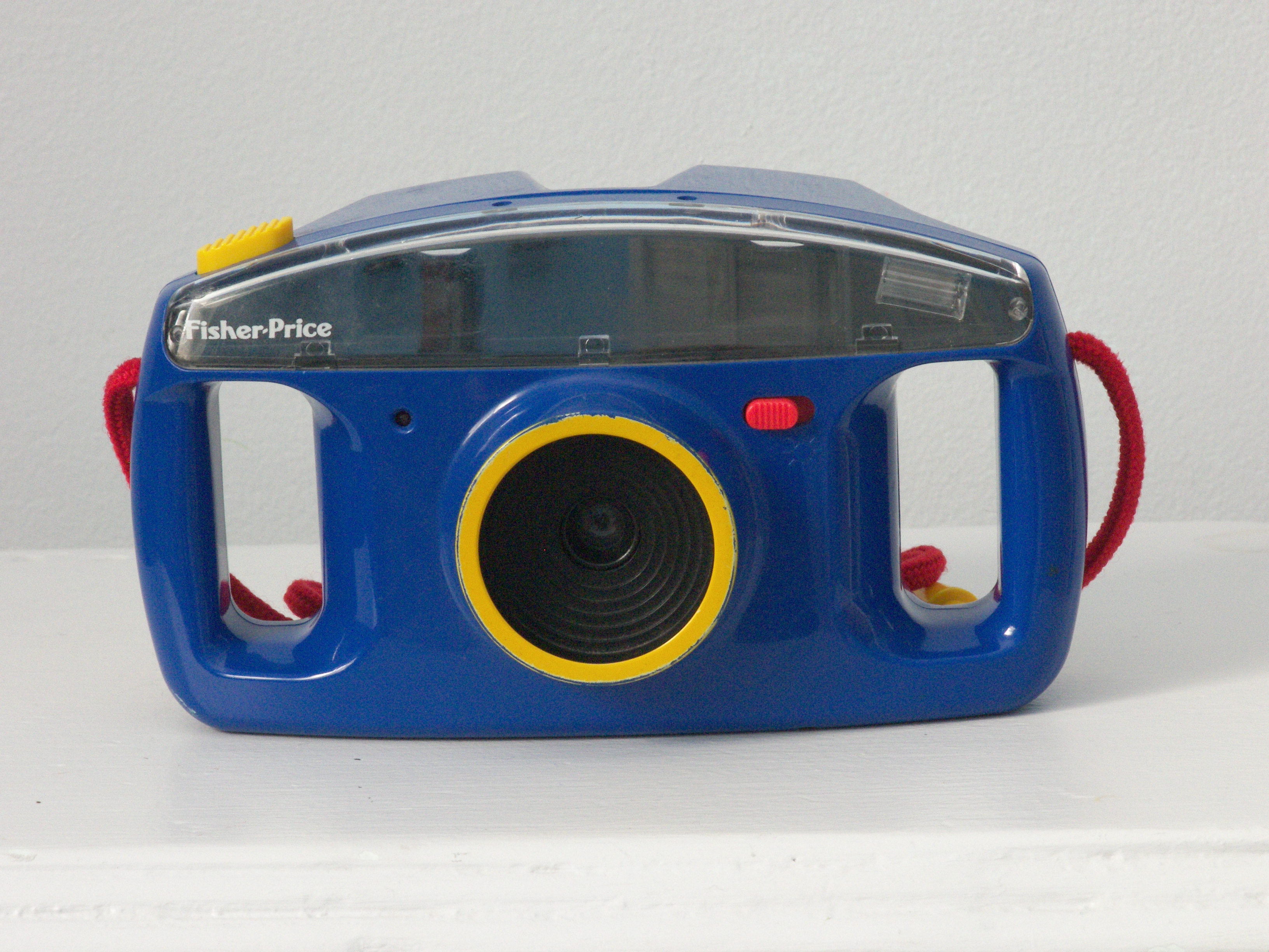 c1994-1997 takes 110 cartridge film.